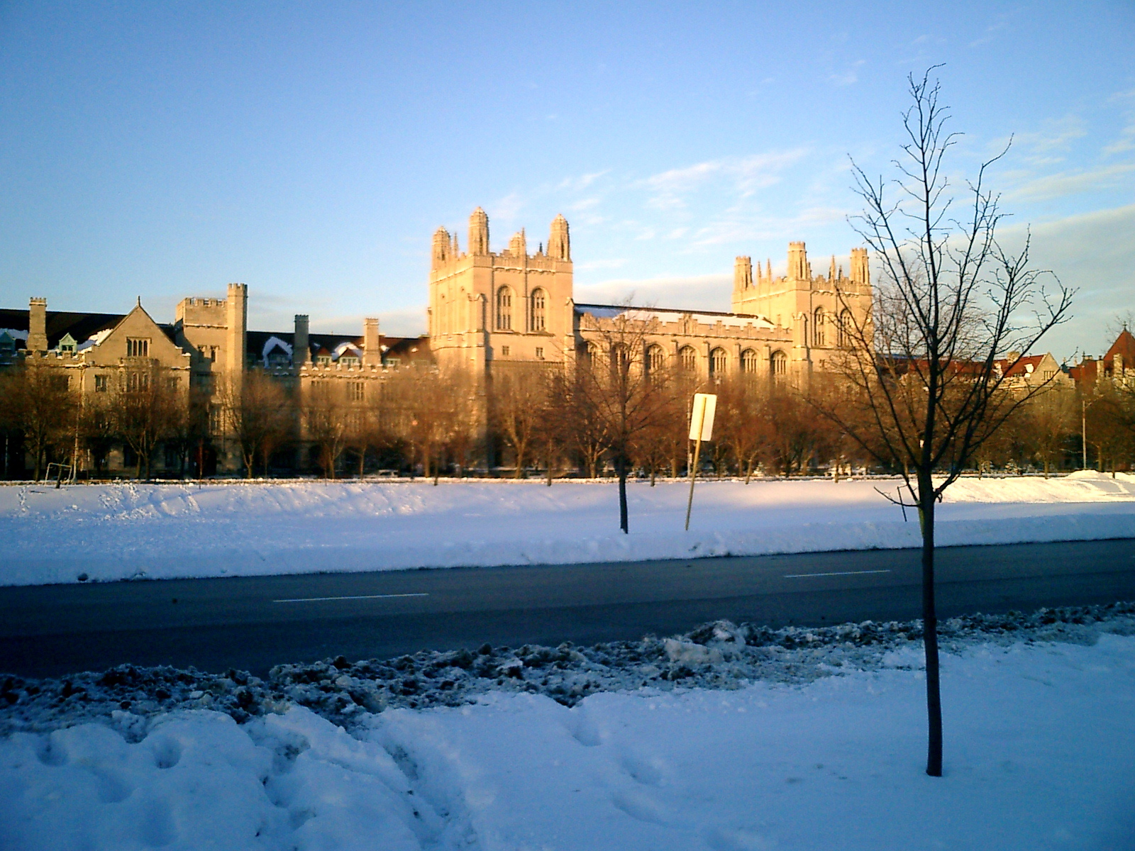 Harper Library at the University of Chicago from across the Midway Plaisance.